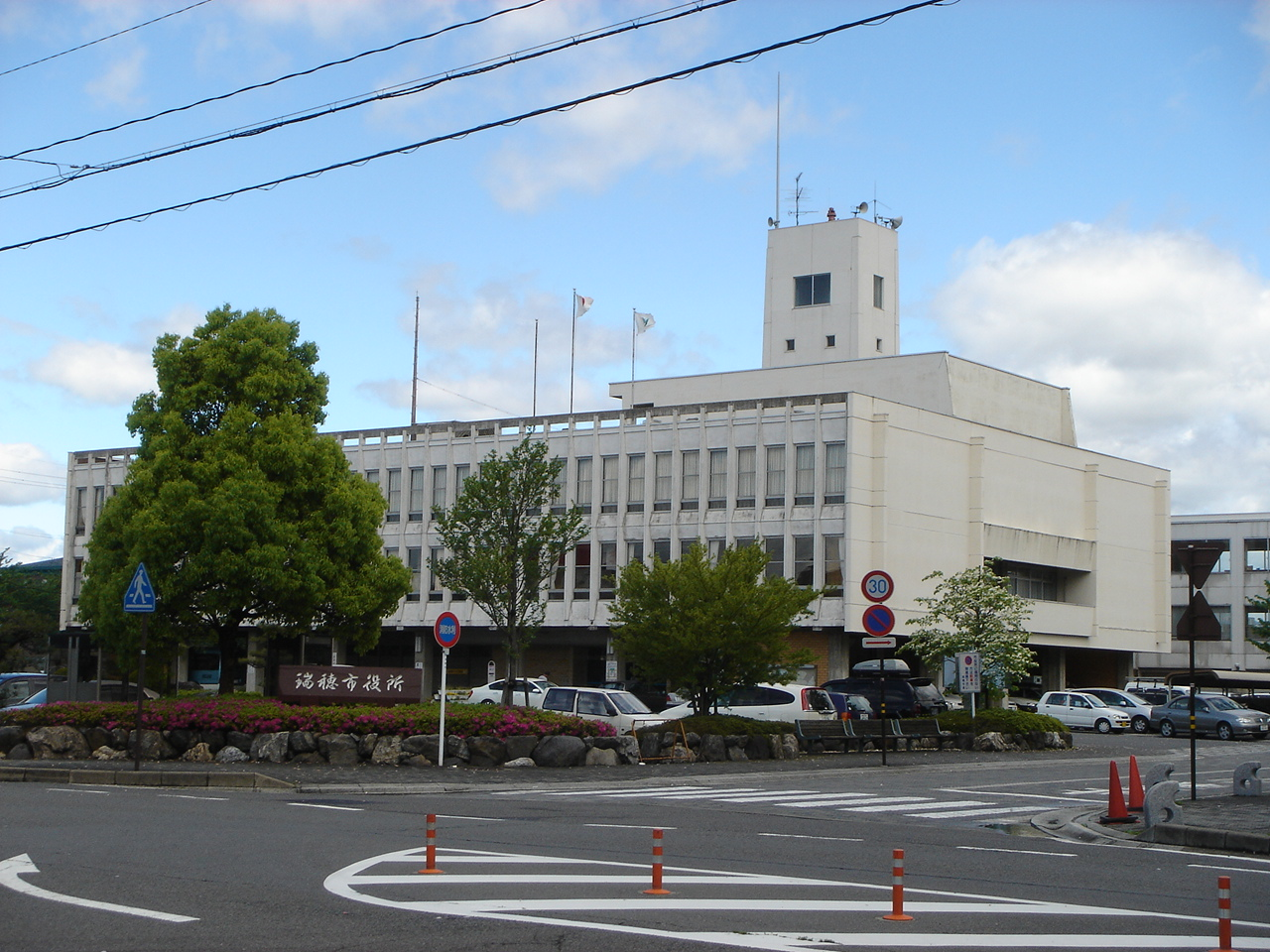 Mizuho City Hall in Gifu Preferture, Japan